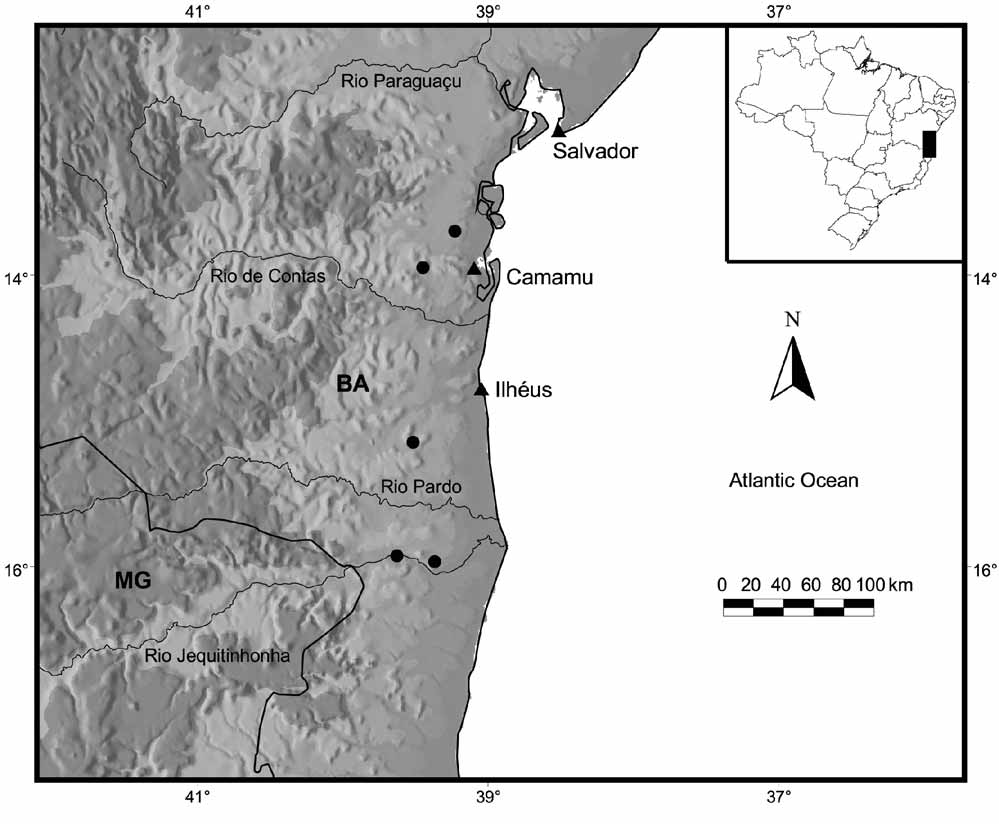 FIGURE 5 in On the identity of Hyla strigilata Spix, 1824 (Anura: Hylidae): redescription and neotype designation for a “ ghost ” taxon. FIGURE 5. Localities visited by Spix (triangles) and distribution of Scinax strigilatus in Southern Bahia, Brazil (dots). (BA) State of Bahia; (MG) State of Minas Gerais.